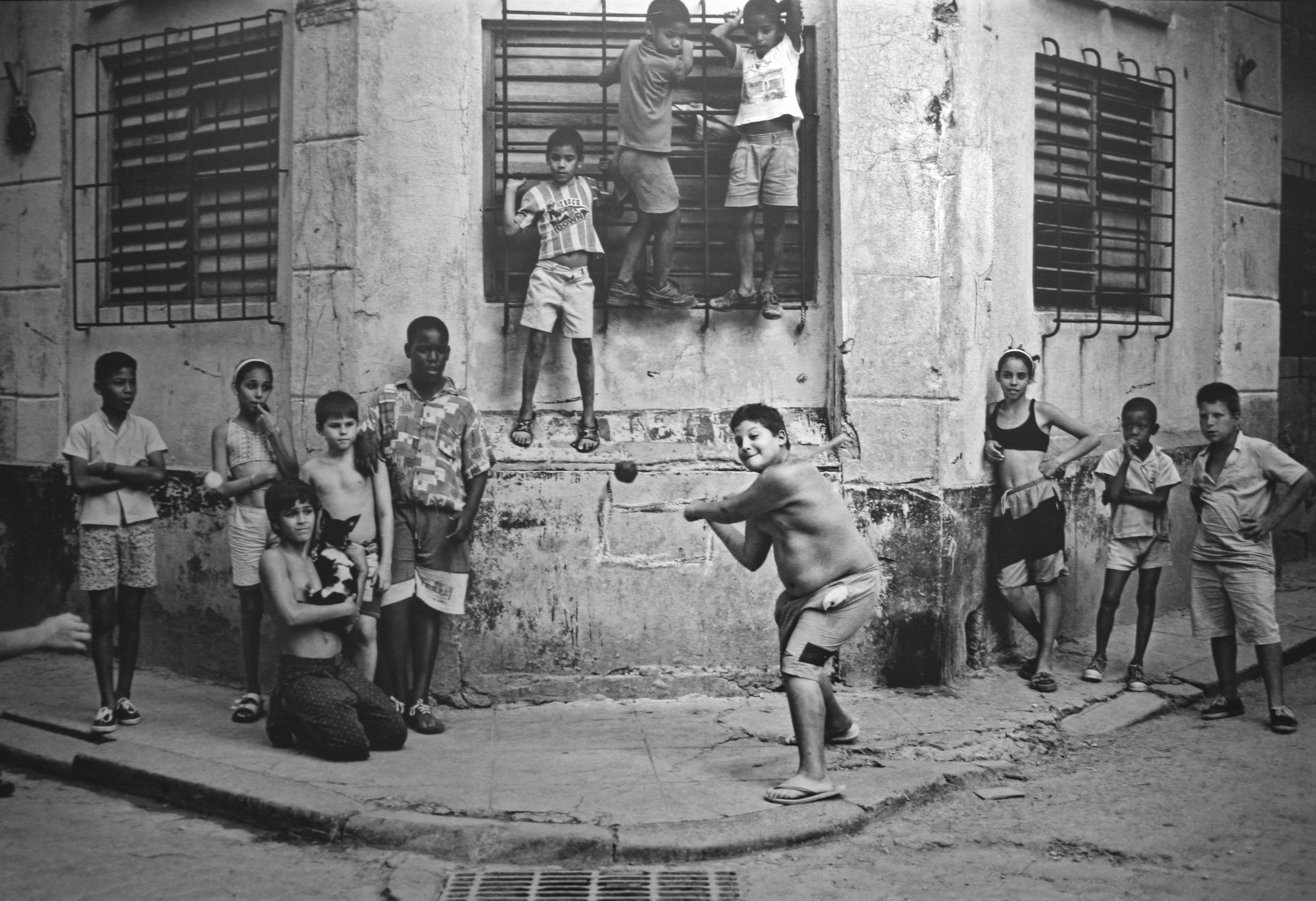 Boys Playing Stickball, Havana, Cuba, 1999 There's a famous picture taken in the '50s of Willie Mays playing stick ball in Harlem. I played a lot of stick ball growing up and always loved it. I wanted to replicate the Mays photo in Cuba because baseball is the national sport there. It's everywhere. Cuban children play ball in the streets like kids in U.S. cities used to do. It was my last Saturday on this trip and I was slowly weaving through the streets of old Havana, looking for kids playing ball, when I came upon this corner, La Esquina. If you study the picture, you see that every eye, not just the kids' but even the dog's, is on that taped ball. It's the decisive moment, and there's no way to anticipate when you're going to get it. I had a vision of a picture that I'd tried and tried and tried to find but hadn't yet, and I came within a day of not finding it. To me it was all about getting the photograph I'd been searching for and I did it in 20 frames.